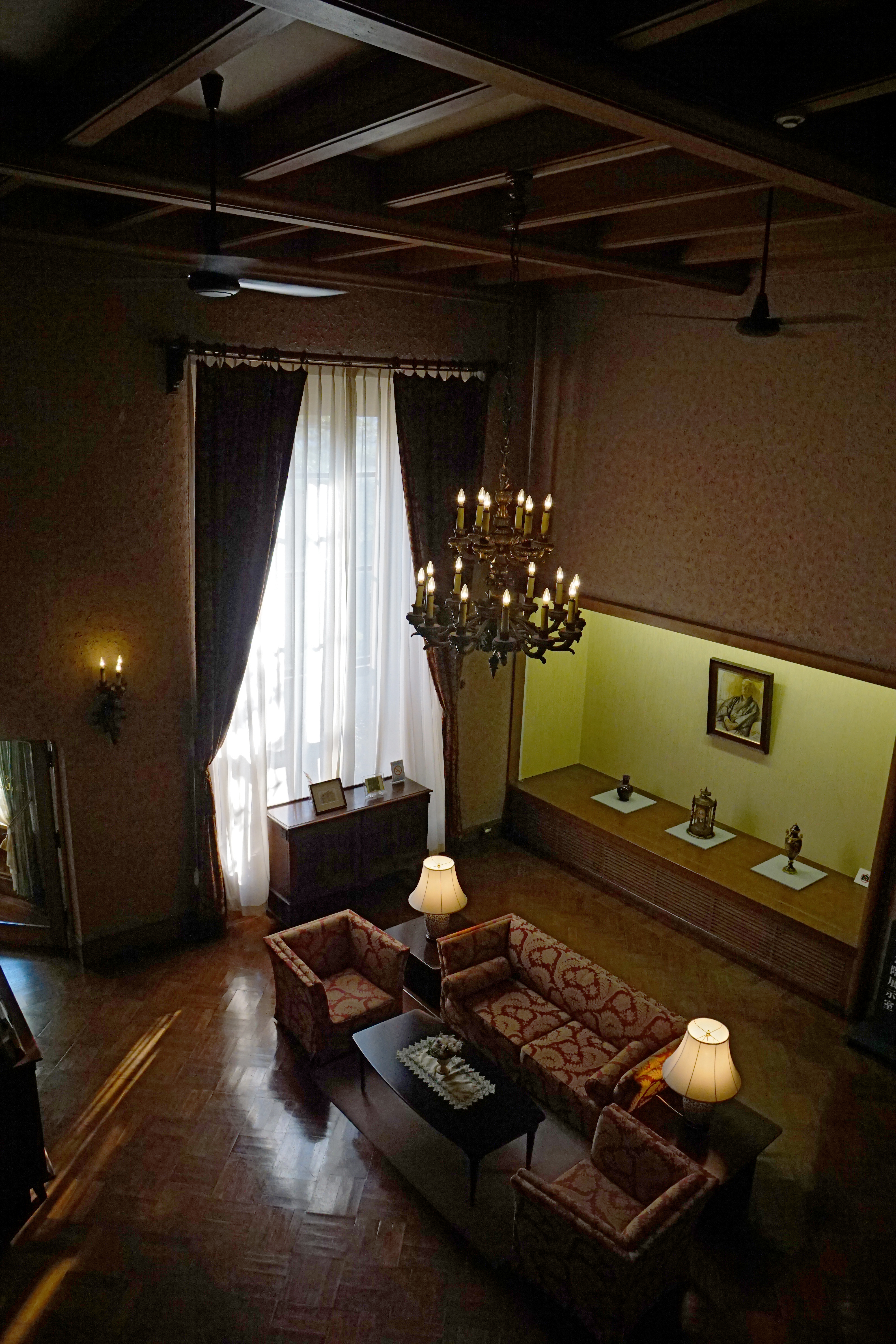 Itsuo Art Museum in Ikeda, Osaka prefecture, Japan.